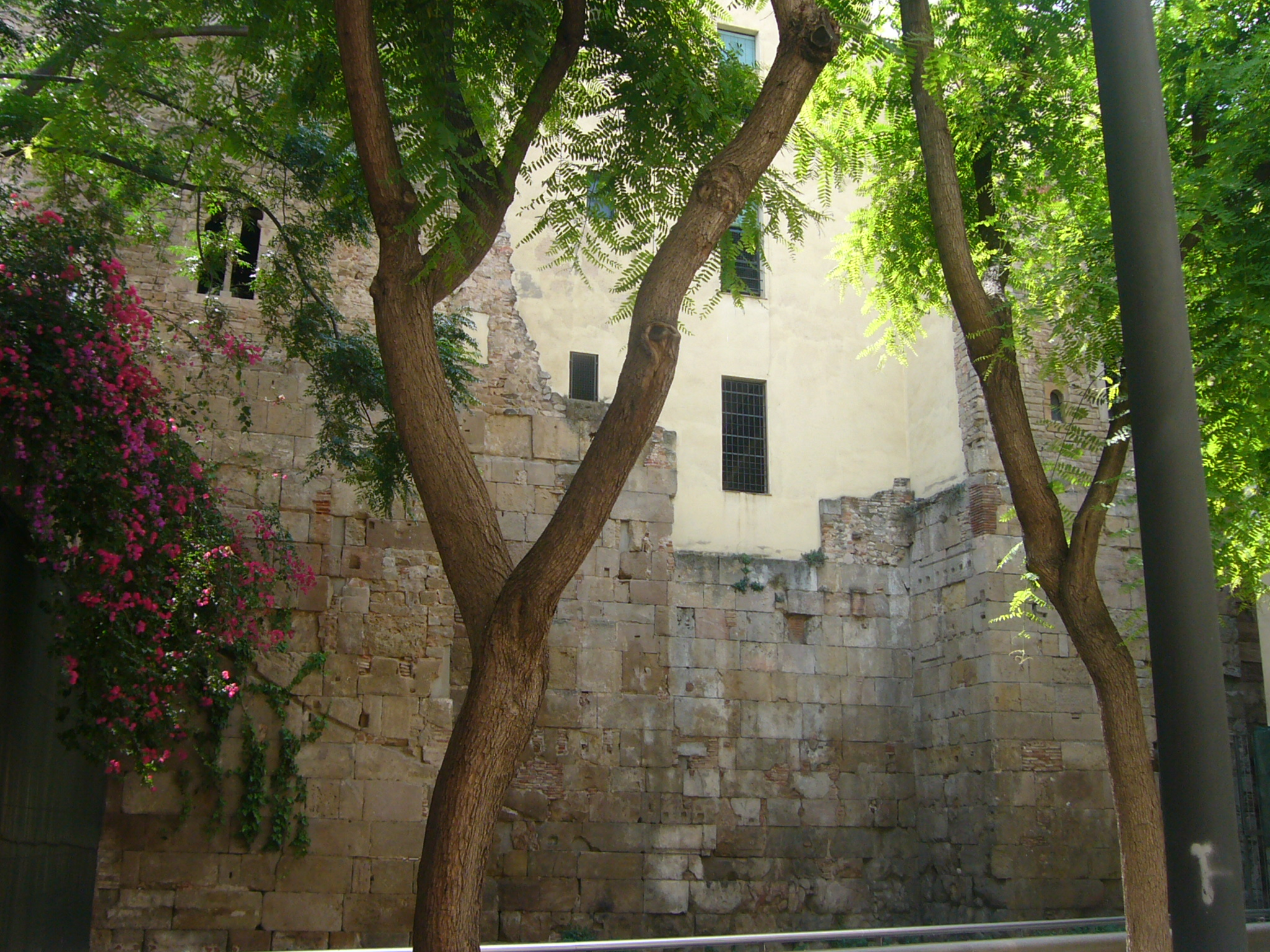 Ancient Roman wall (Barcelona) in carrer de la Palla